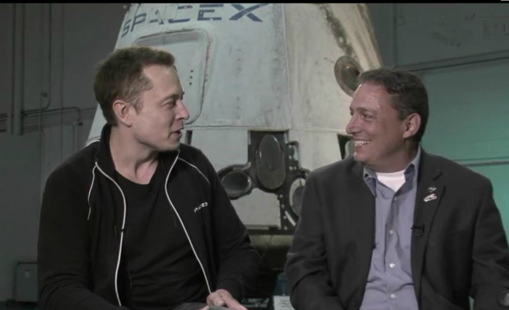 Elon Musk (left), CEO and Chief Designer of SpaceX on NASA TV, May 25, 2012 (NASA) =[Cropped to remove the VOA bug at the bottom right, cloned to remove the NASA TV logo in the upper right